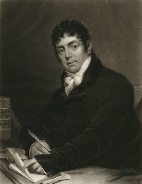 Portrait of Sir Richard Birnie (1760?–1832) was a Scottish police magistrate in London